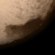 The Krun region of Pluto